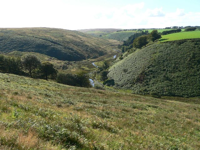 River Barle Upstream of Simonsbath. Looking West